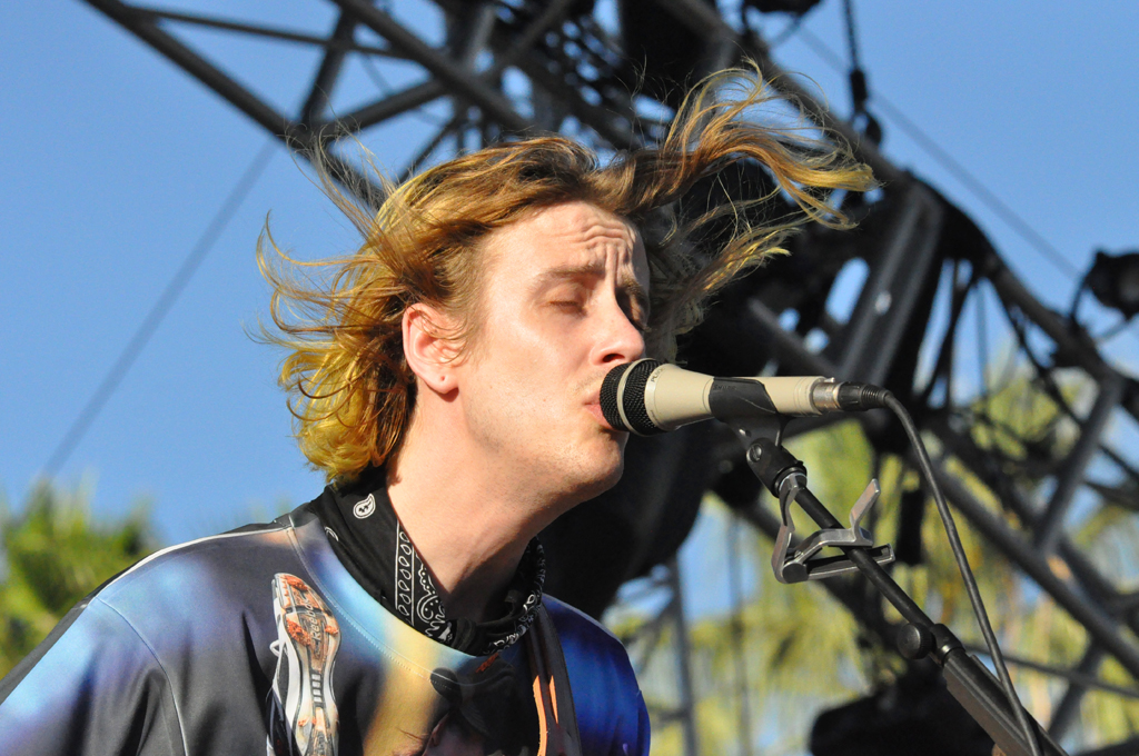 Girls lead singer Christopher Owens at Coachella, 2012.